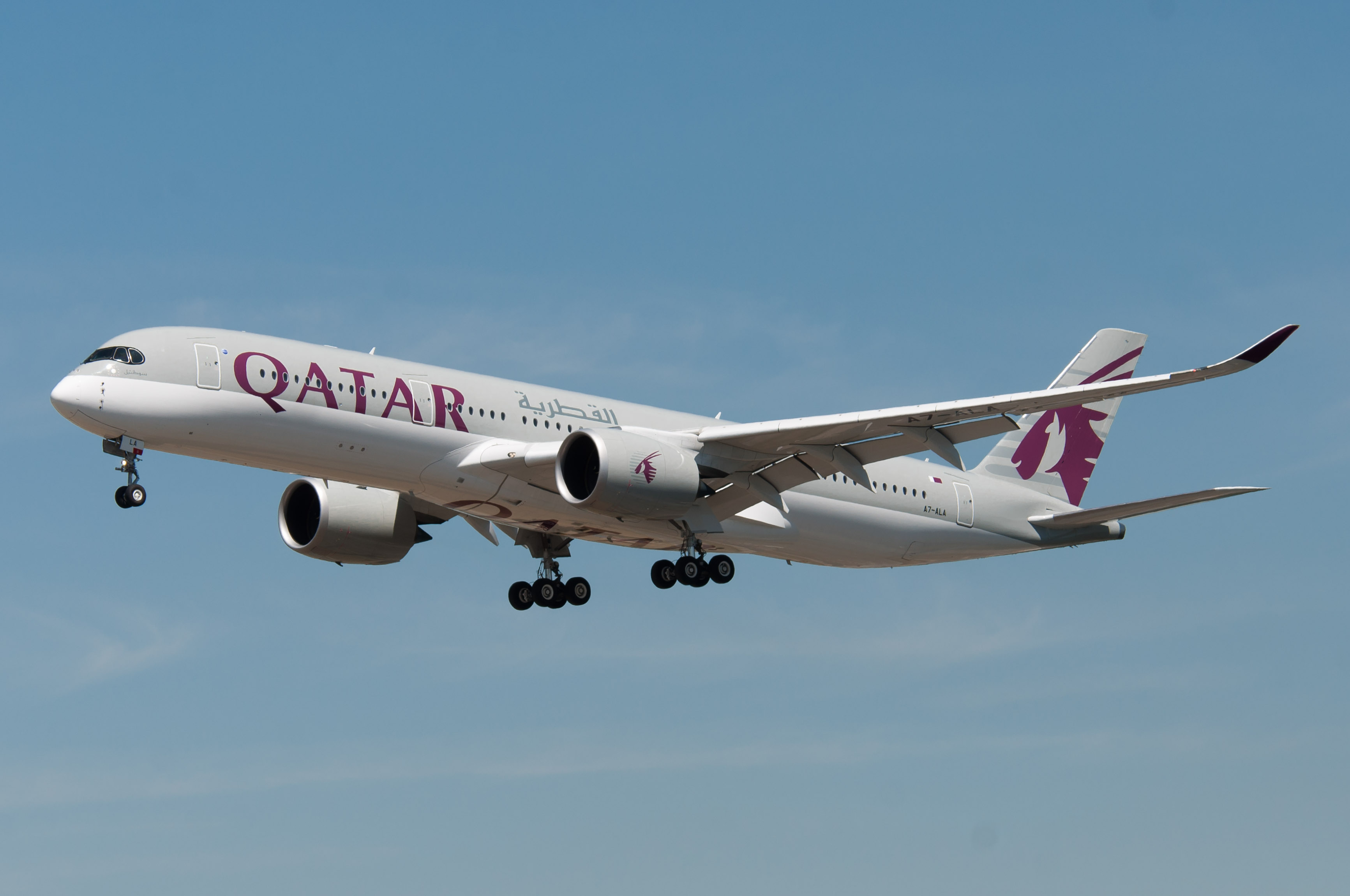 Qatar Airways Airbus A350-941 on final approach to Frankfurt Airport